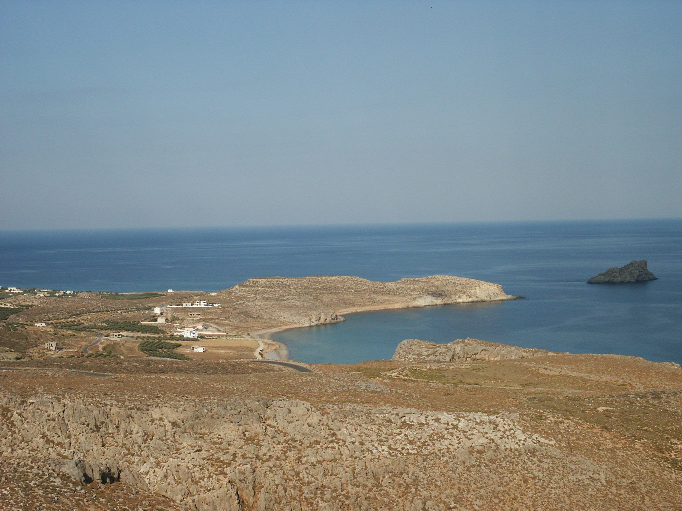 Anavatis island, Lasithi, Crete, Greece